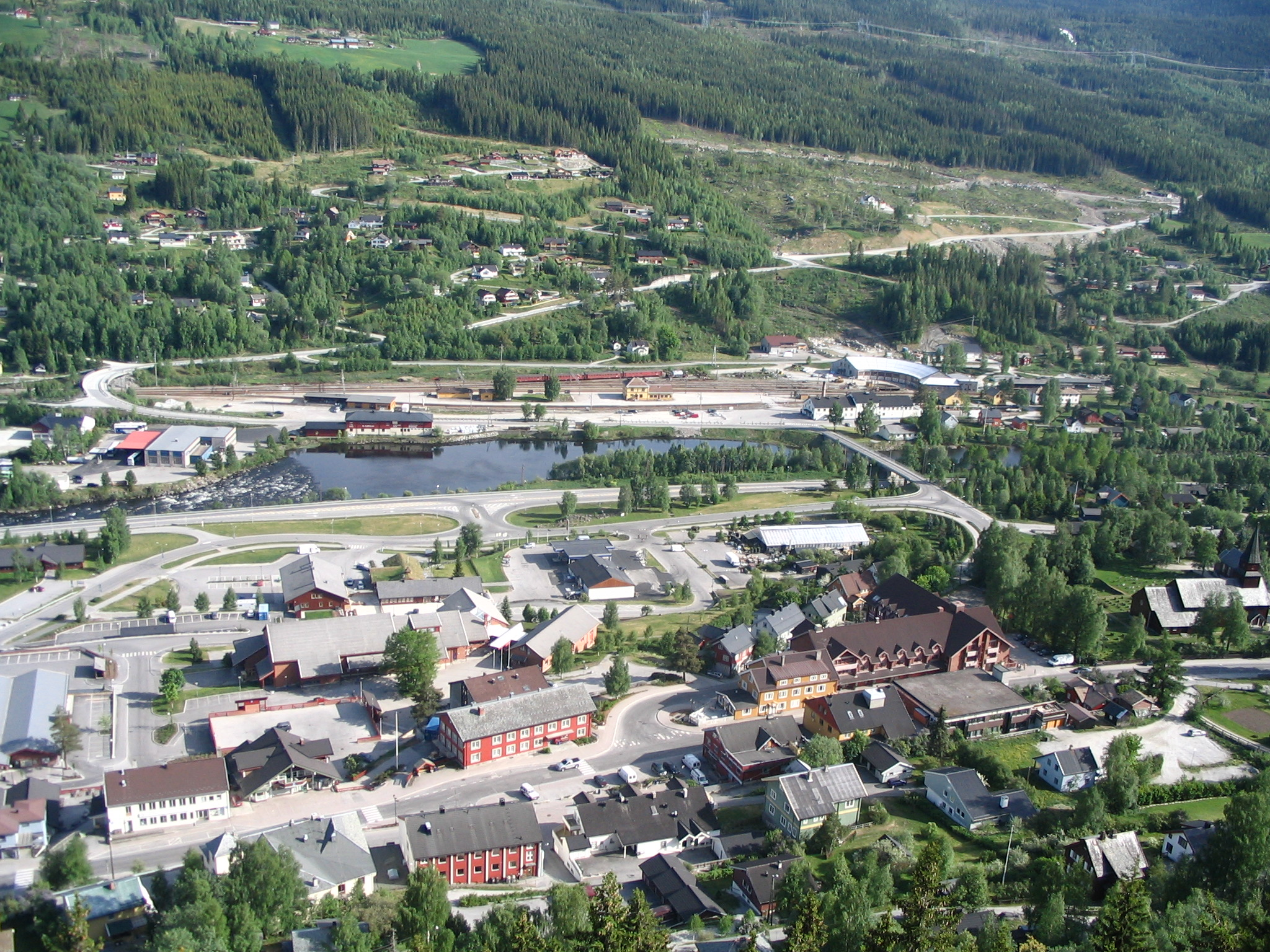 Ål city center seen from Sundreberget